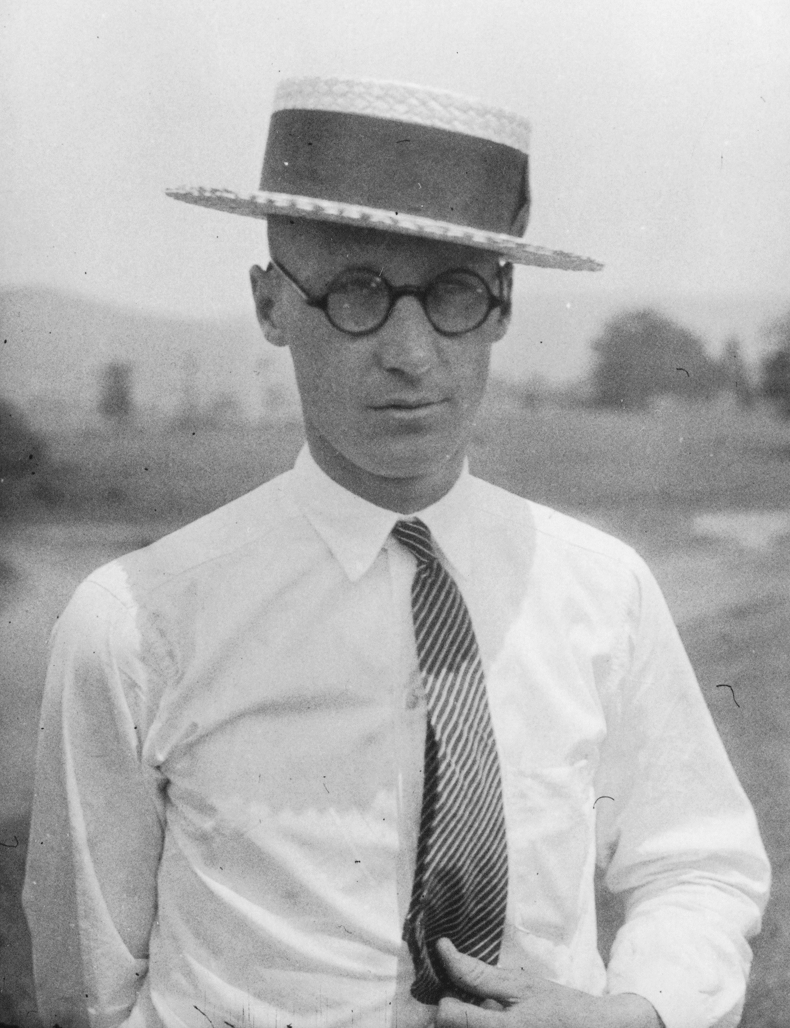 Photograph of John Scopes taken one month before the Tennessee v. John T. Scopes Trial. From the Smithsonian Institution Archives. Rotated, cropped, and cleaned by Kaldari.